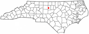 Category:North Carolina Dot Maps